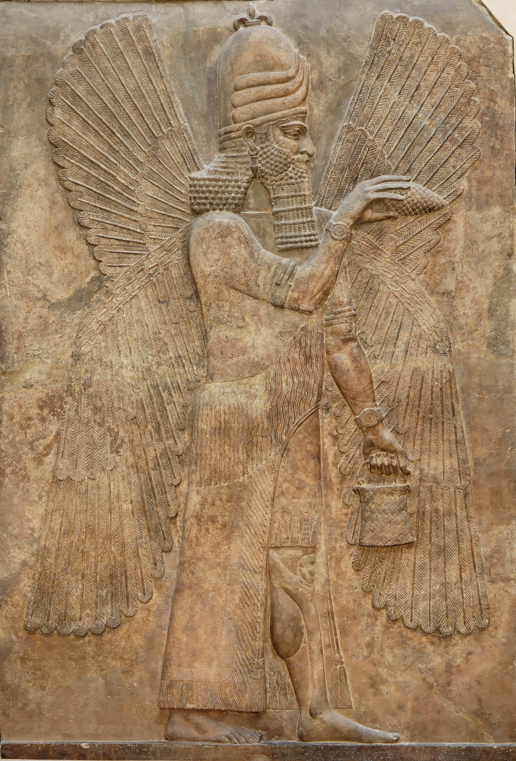 Winged genie with spath-(pollen), and pollen/spath-bucket before a Tree of Life panel-(at other museum), giving its blessing. Relief from the north wall of the Palace of king Sargon II at Dur Sharrukin in Assyria (now Khorsabad in Iraq), 716–713 BC.